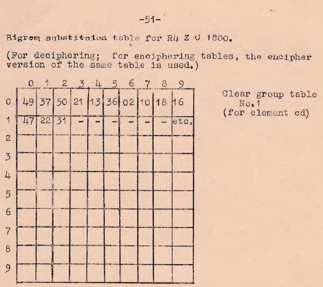 TICOM I-19ab, p.51. Image of the Bigram substitution table for the NKVD R4ZC1800 code. Other information Image is printer on Orange Blotter paper. All TICOM documents are in the public domain, and this has already been decided by Dianna.